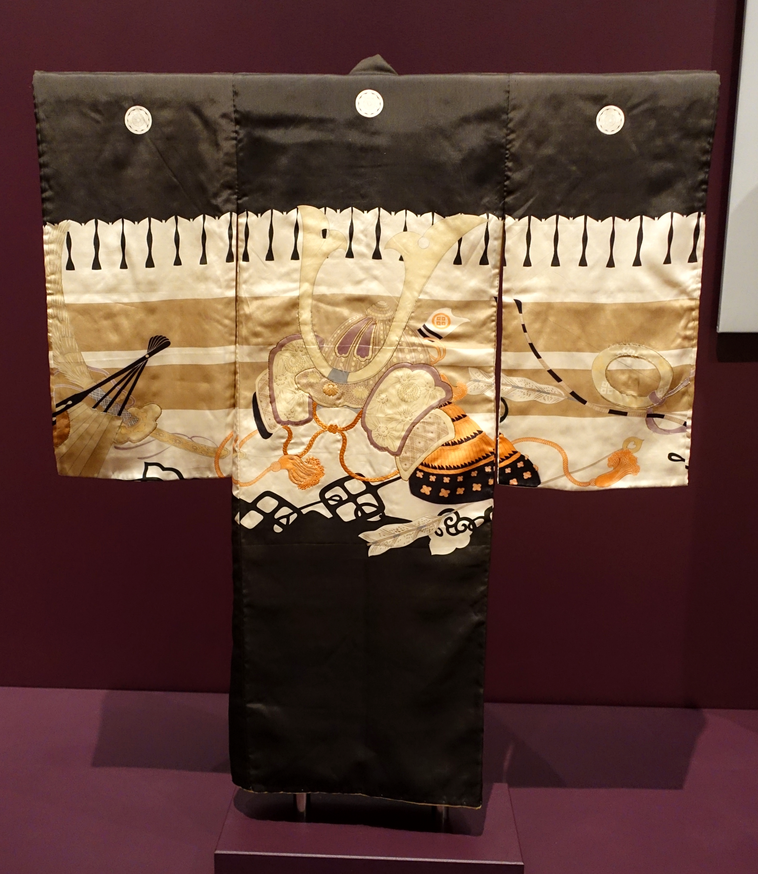 Exhibit in the Textile Museum, George Washington University, Washington, DC, USA. This work is old enough so that it is in the public domain.